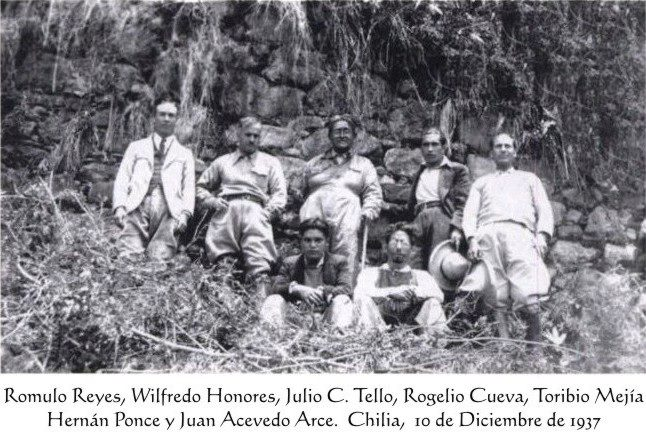 La Histórica fotografía de Julio C. Tello en La ciudadela Nunamanca - 1937